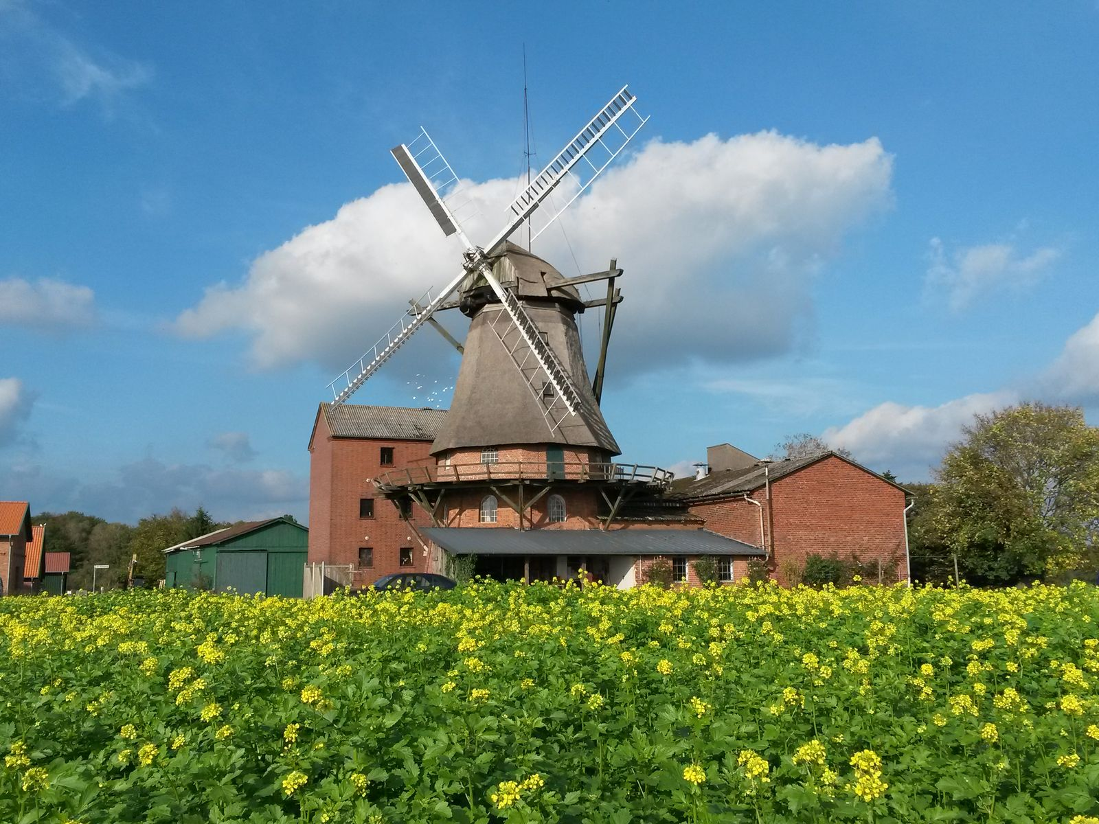 Kampen windmill